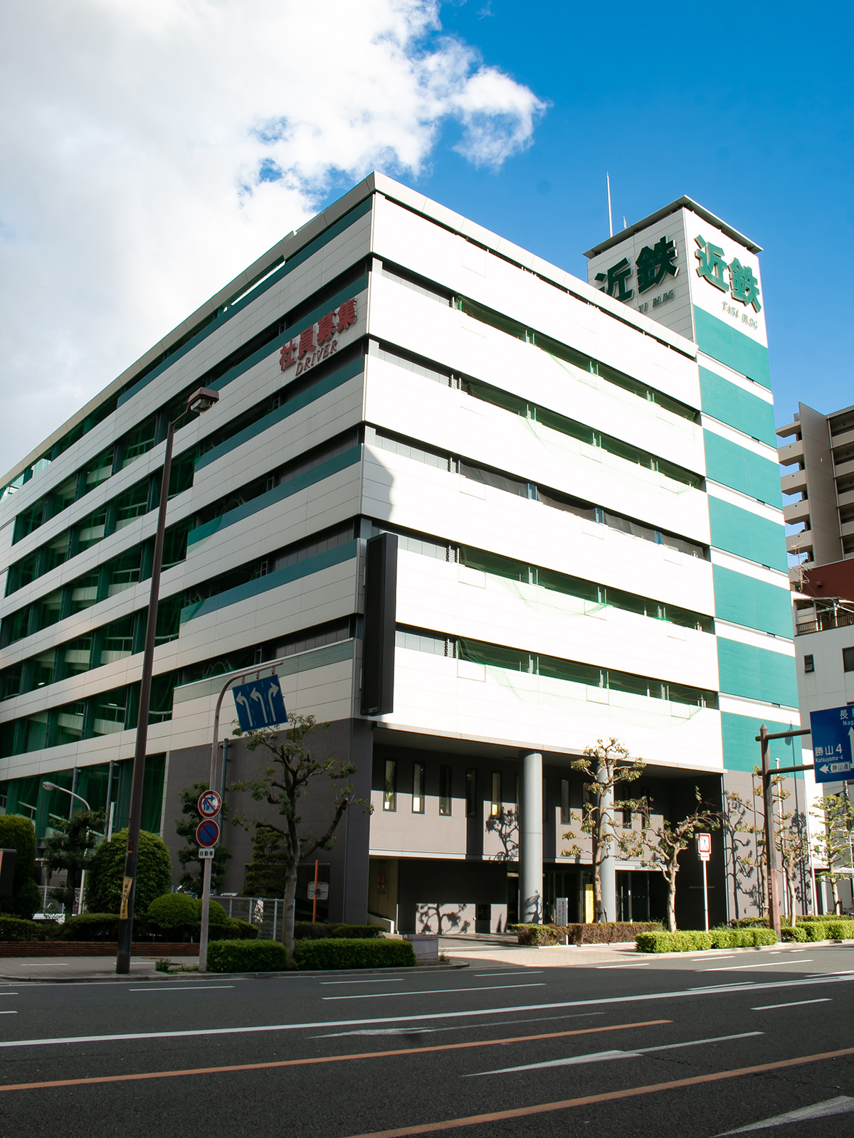 Headquarter of Kintetsu Taxi.